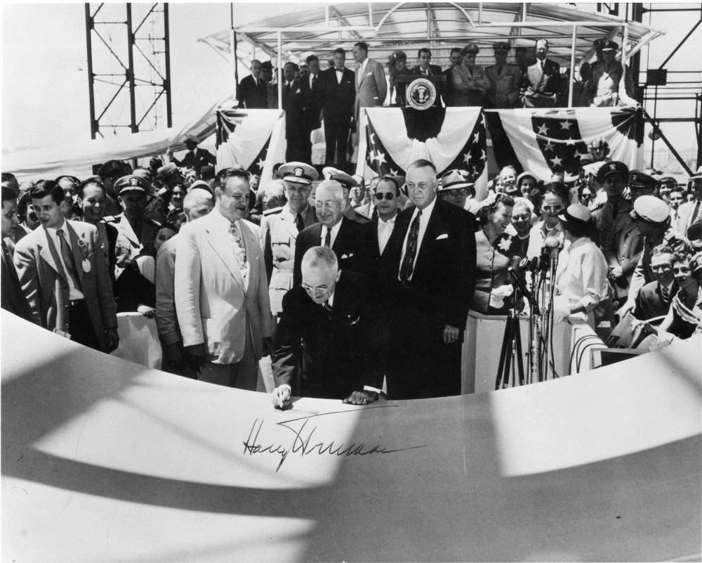 President Harry S. Truman authenticates the keel of the Nautilus (SSN-571) at her keel laying at the Electric Boat Co., Groton, Conn. on 14 June 1952.